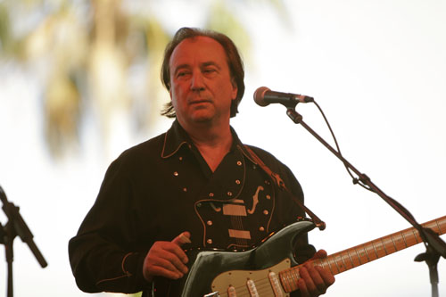 Jim Messina - Live in Concert (photo by Scott Dudelson)